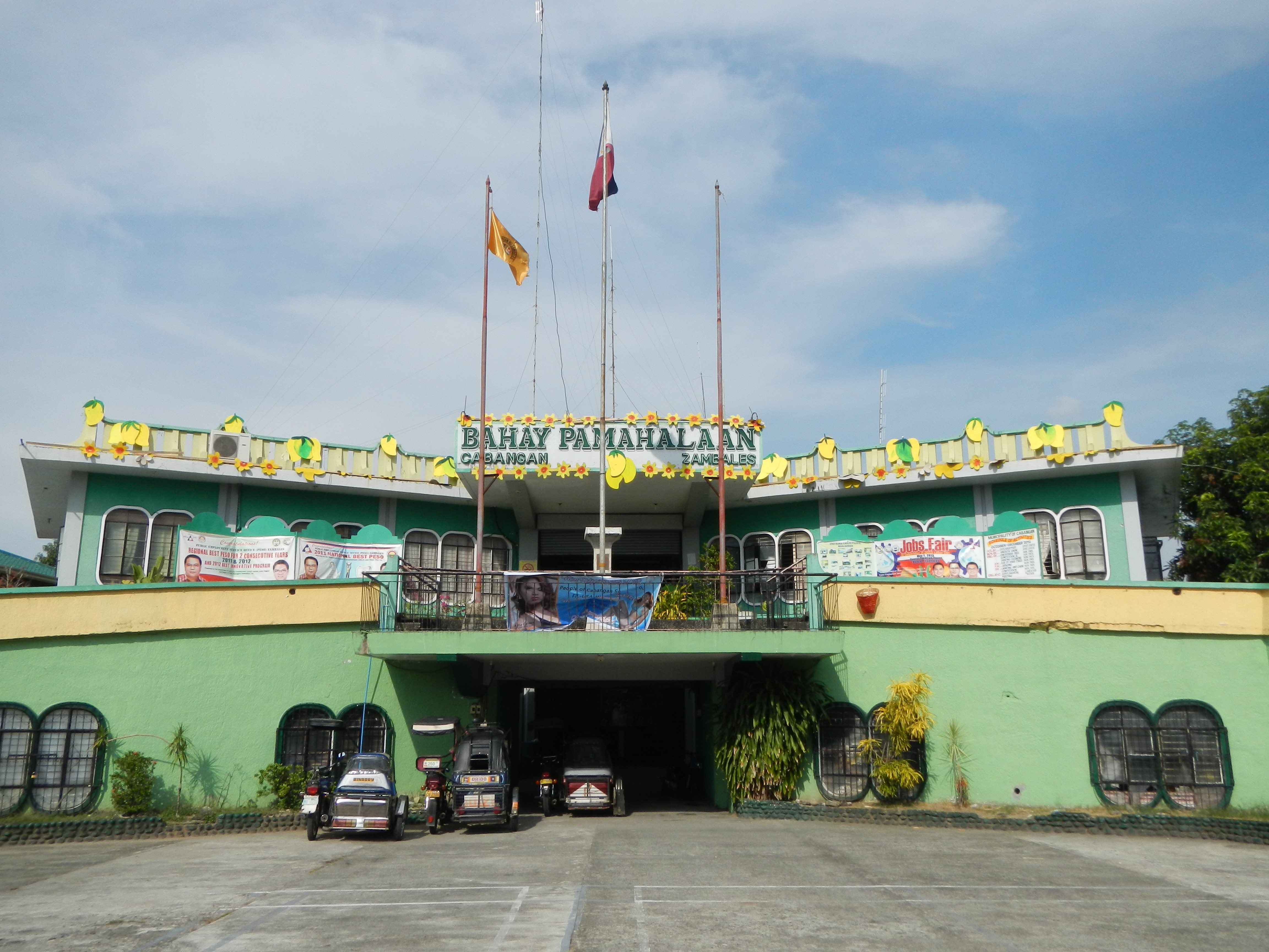 Cabangan, Zambales[1] is a fourth class municipality in the province of Zambales, Philippines. According to the 2010 census, it has a population of 23,082 people.[2]geographical location: Zambales, Region 3, Philippines, Asia geographical coordinates: 14° 53' 0" North, 120° 13' 0" East This place is situated in Zambales, Region 3, Philippines, its geographical coordinates are 14° 53' 0" North, 120° 13' 0" East and its original name (with diacritics) is Cabangan.[3]Land Area: 239.40 km² ZIP Code: 2203 Coordinates: 15°10'31"N 120°7'0"E[4] [5] PCIJ: Cabangan in Zambales: Unchanged by elections April 13, 2007 [6] San Isidro, Cabangan, Zambales [7] Mga isdang ginamitan ng dinamita, kinumpiska ng Cabangan MPS September 2, 2012 -- 1856 St. Rose of Lima Parish Church of Cabangan National Rd[8] [9] Santa Rosa de Lima Parish Church (Cabangan, Zambales)[10][11][12]Parish of St. Rose of Lima (F-1856), Cabangan 2203 Zambales Titular: St. Rose of Lima, Aug. 23 Administrator: Fr. Felix P. Labios Jr. San Sebastian Vicariate Vicar Forane: Fr. Daniel O. Presto